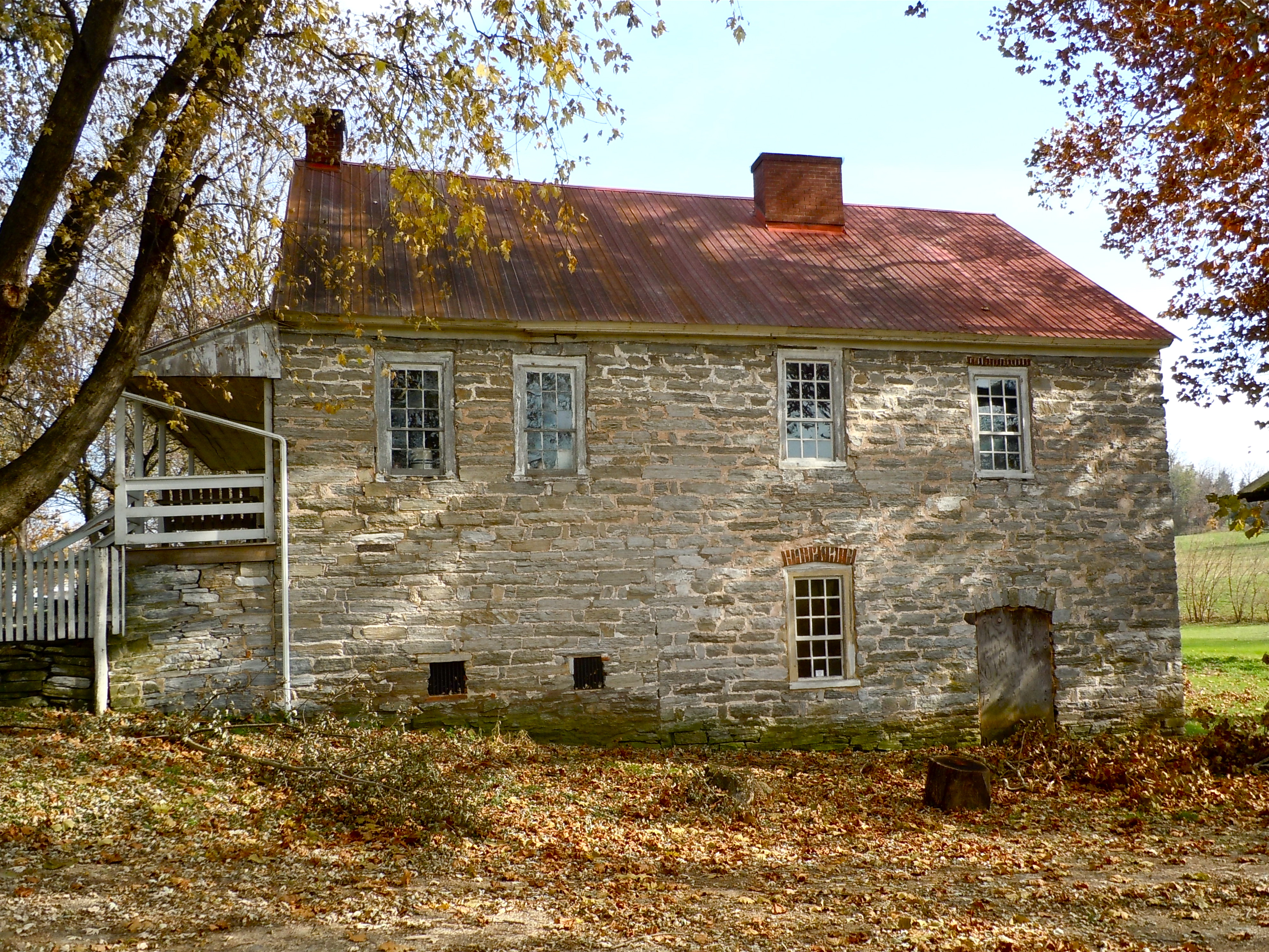 Schaeffer House on the NRHP and a National Historic Landmark since July 25, 2011. Near the intersection of PA 501 and PA 897, Schaefferstown, Lebanon County, Pennsylvania